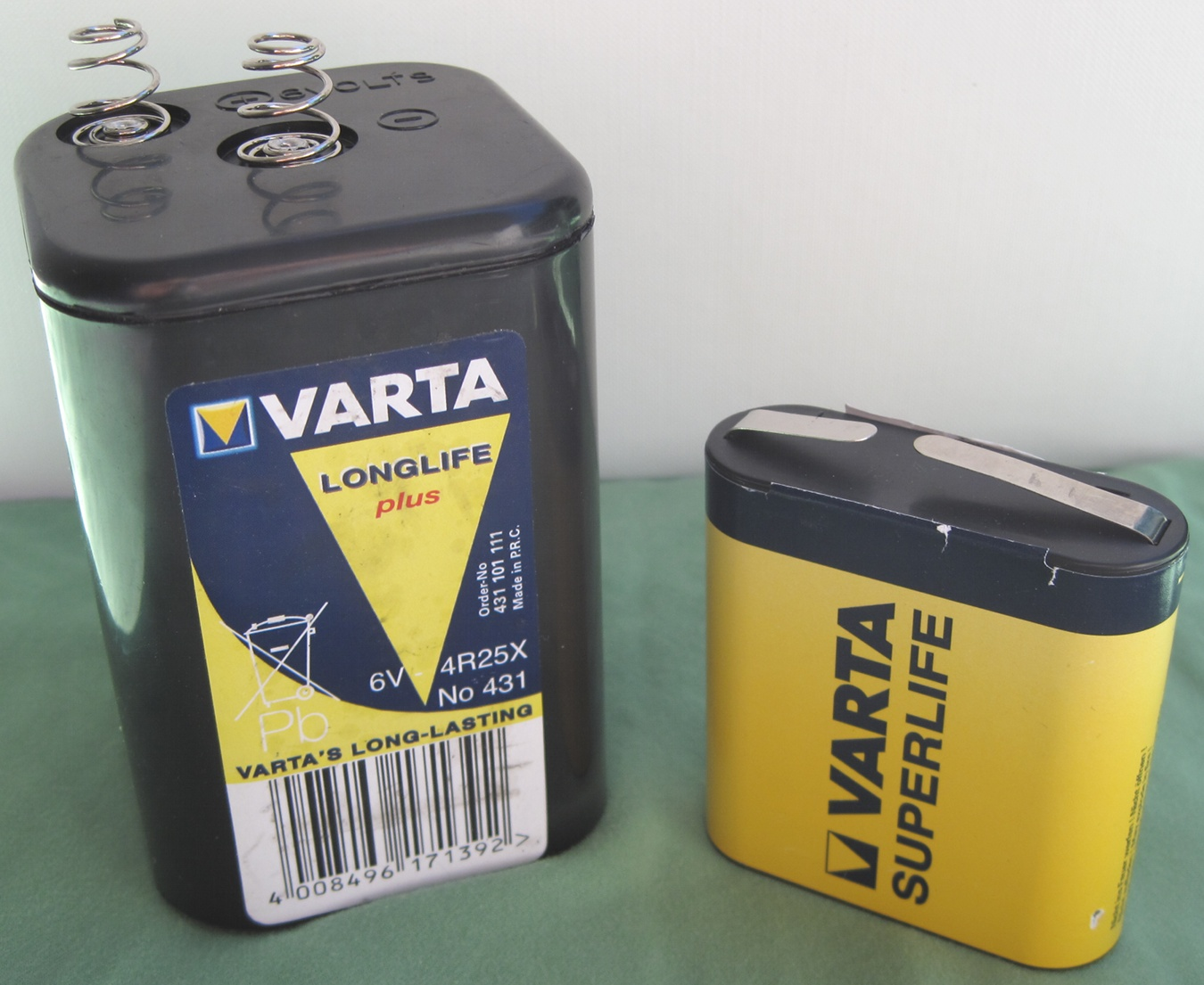 A 4.5 and 6 volt lantern battery side by side comparison